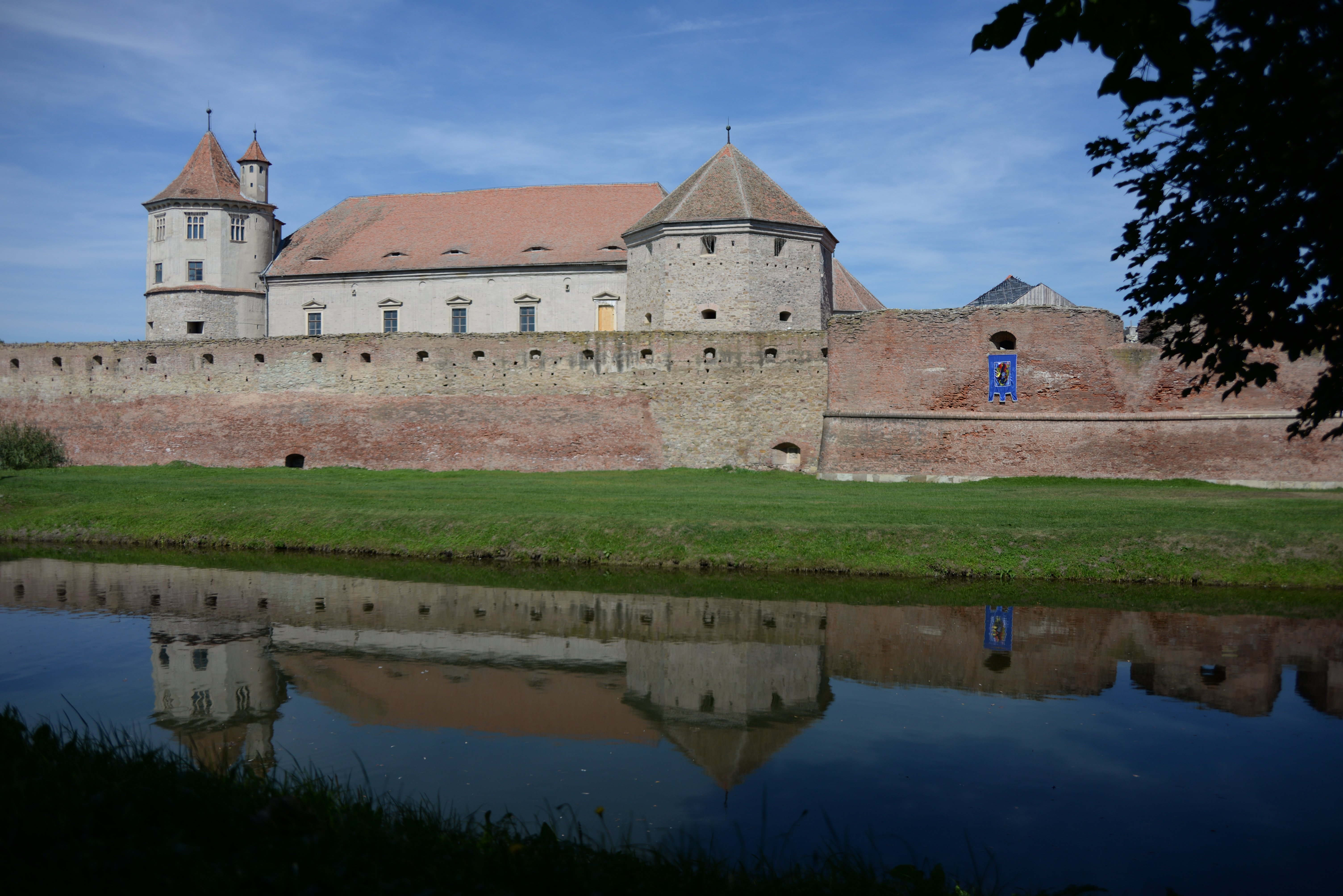 Fagaras Fortress - the fortress that was never conquered